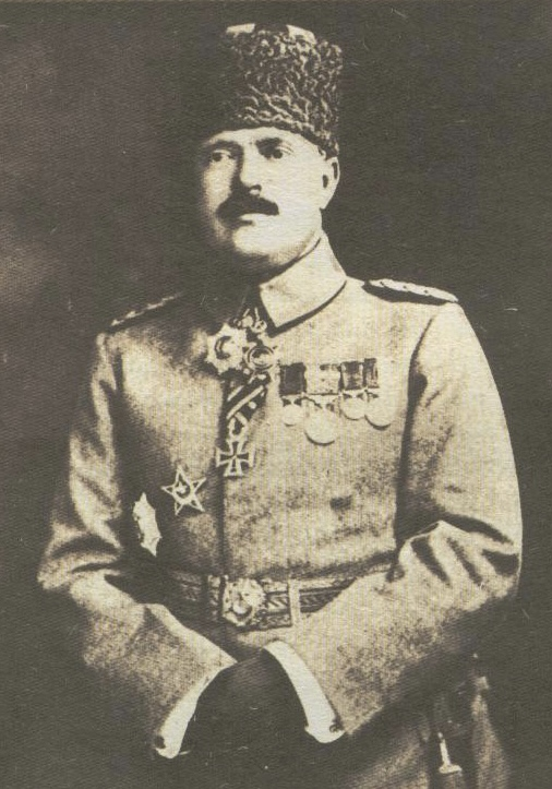 Commander of the Ottoman II Corps Mirliva Faik Pasha.